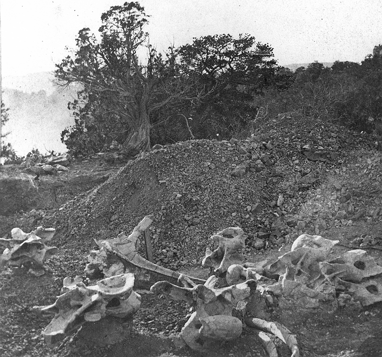 Camarasaurus supremus (#1) bones being exvataed by Oramel Lucas for Edward Drinker Cope, c. 1877.